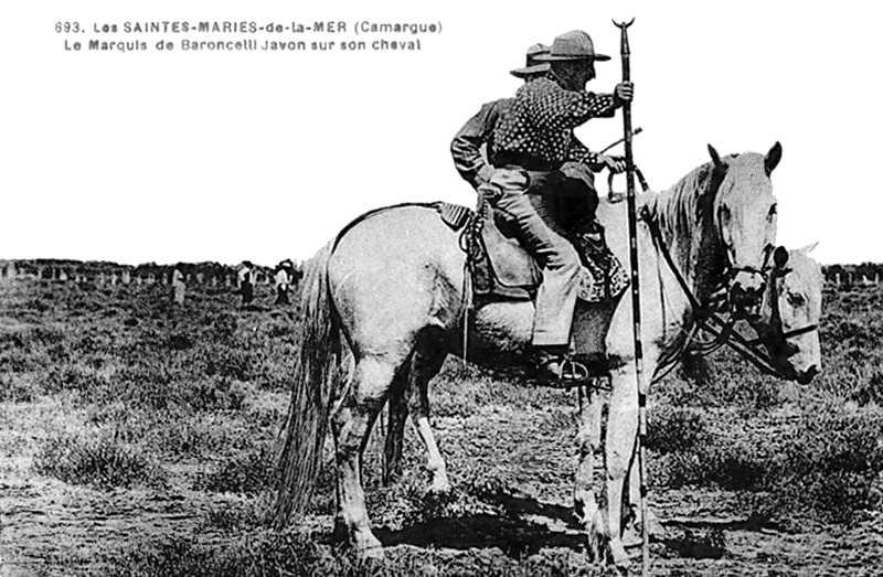 The Marquis of Baroncelli-Javon in gardian's attire, watching his herd of bulls moving around his "manade" at Saintes-Maries-de-la-Mer in the Bouches-du-Rhône department in the early twentieth century.